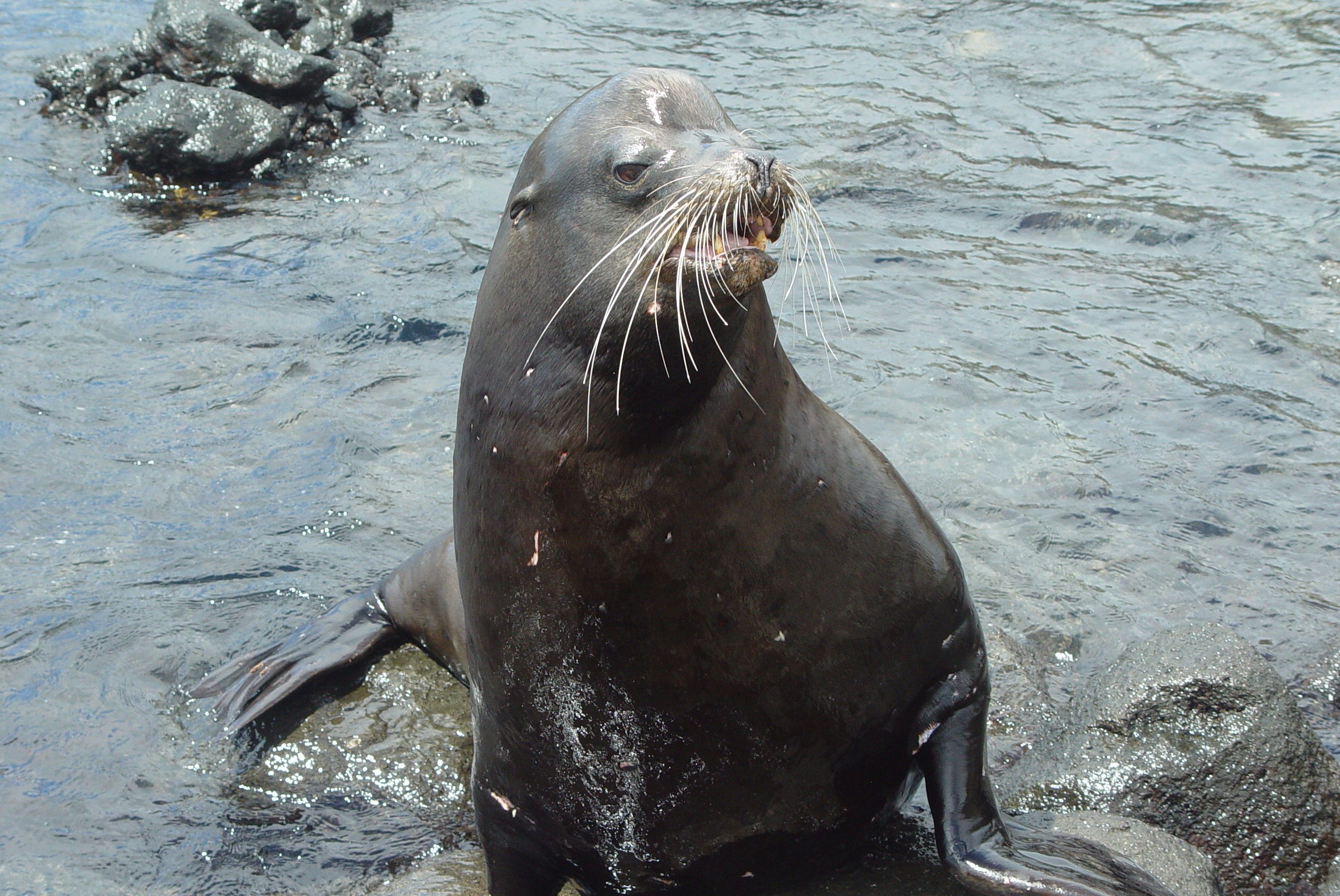 Galápagos sea lion (Zalophus wollebaeki), San Cristóbal Island, Galápagos, Ecuador